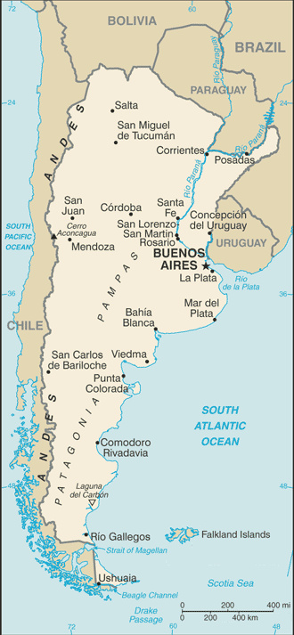 Map of Argentina (derived from the CIA World Fact Book). This map violates legal regulations Argentina: Ley de la Carta [Law No. 22963].